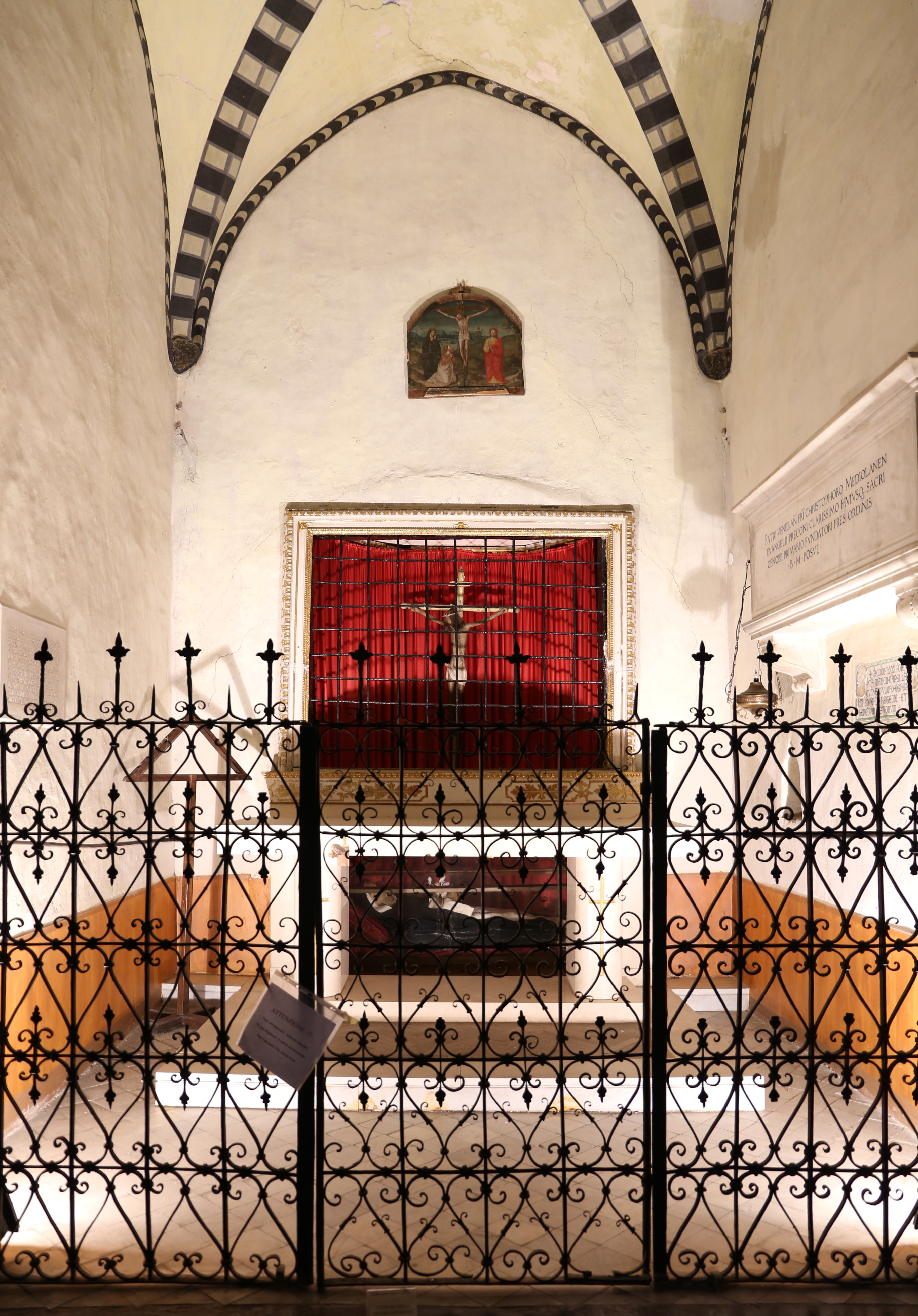 San Domenico (Taggia) - Church interior